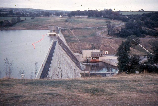 Llys-y-fran Reservoir Dam Taken from the car park on the far side of the reservoir